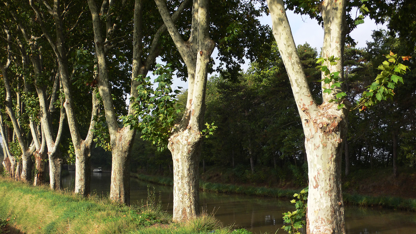 Trees at the Canal du Midi